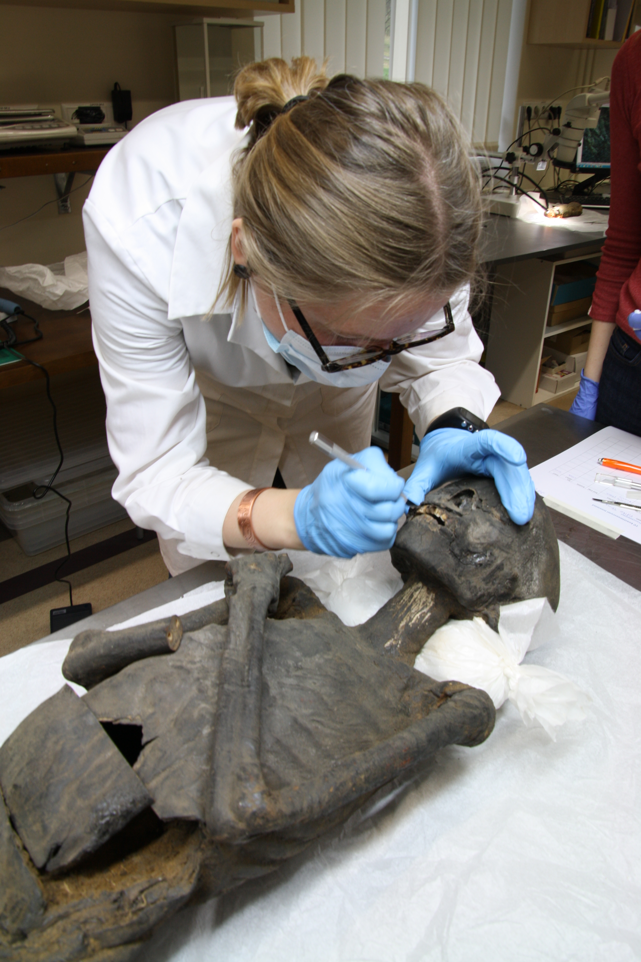 Sampling in progress. Ester Oras, a senior researcher in archaeology and chemistry, pulling out a tooth from the boy-mummy from the collections of the University of Tartu Art Museum. The tooth allowed to confirm the authenticity of the mummy via radiocarbon dating and aDNA analysis. Photo: Mait Metspalu